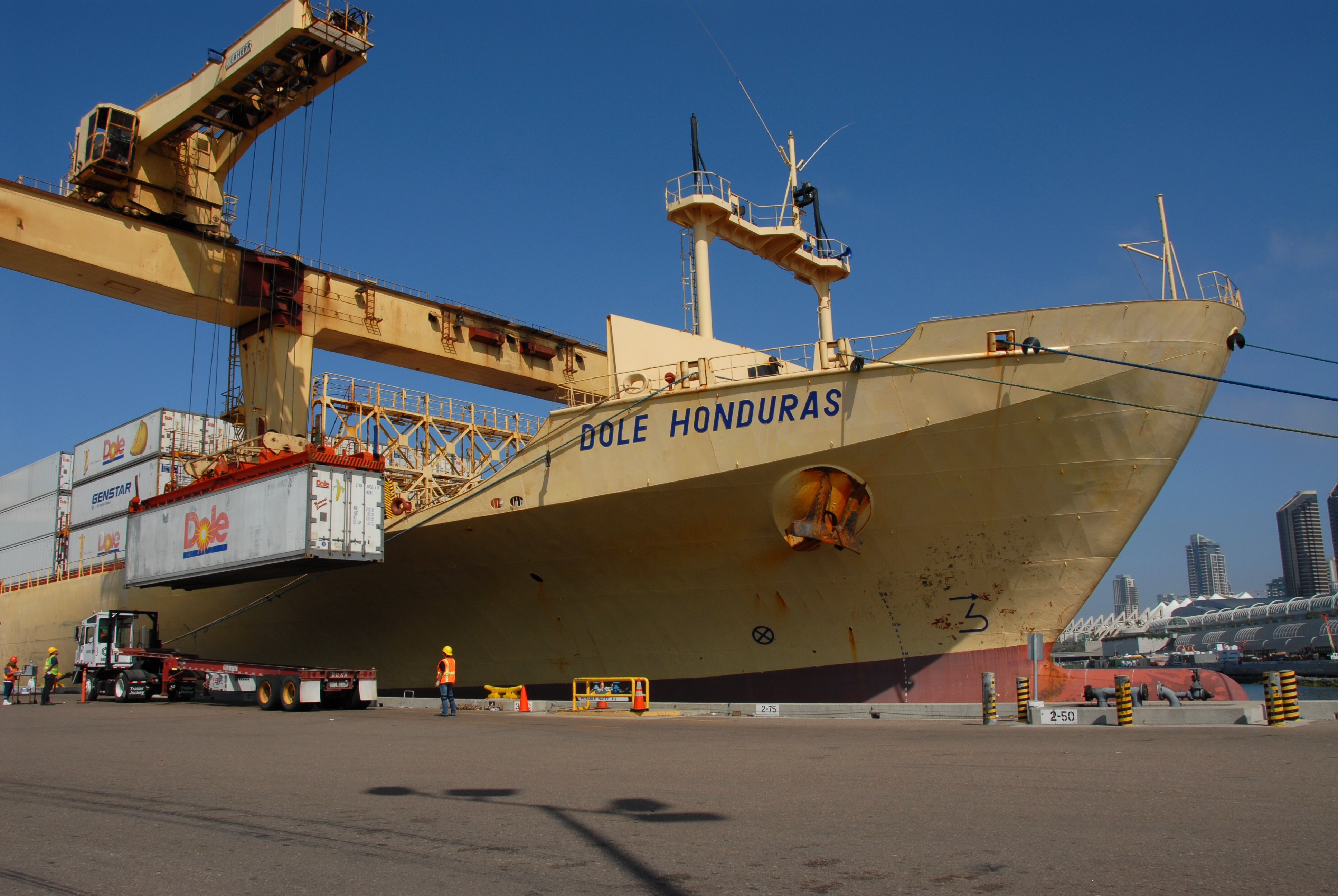 The Port of San Diego is Dole's first stop for fresh fruit that is moving into the U.S. from South America. The Port receives approximately 95,000 twenty-foot containers of Dole fruit each year. (Photo Courtesy: Dale Frost)